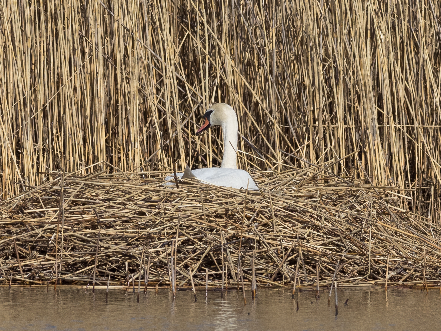 Knölsvan, Mute swan, Cygnus olor, around Vaxholm, Sweden